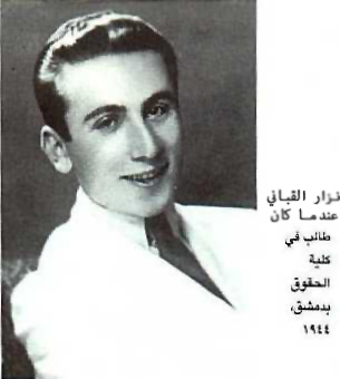 The late Syrian Poet Nizar Kabbani as a student in the Faculty of Law in Damascus.